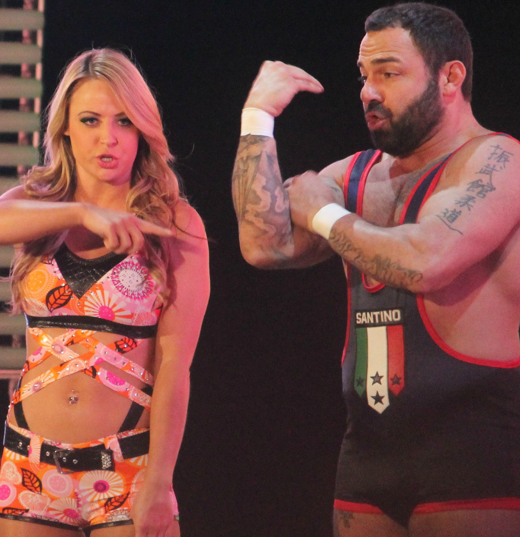 Emma and Santino Marella during a WWE Raw live show in April 2014 one night after WrestleMania 30, cropped from the original file.